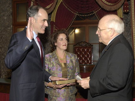 Senator Bob Casey (D-PA) is sworn in by Vice President Dick Cheney on January 4th, 2007.